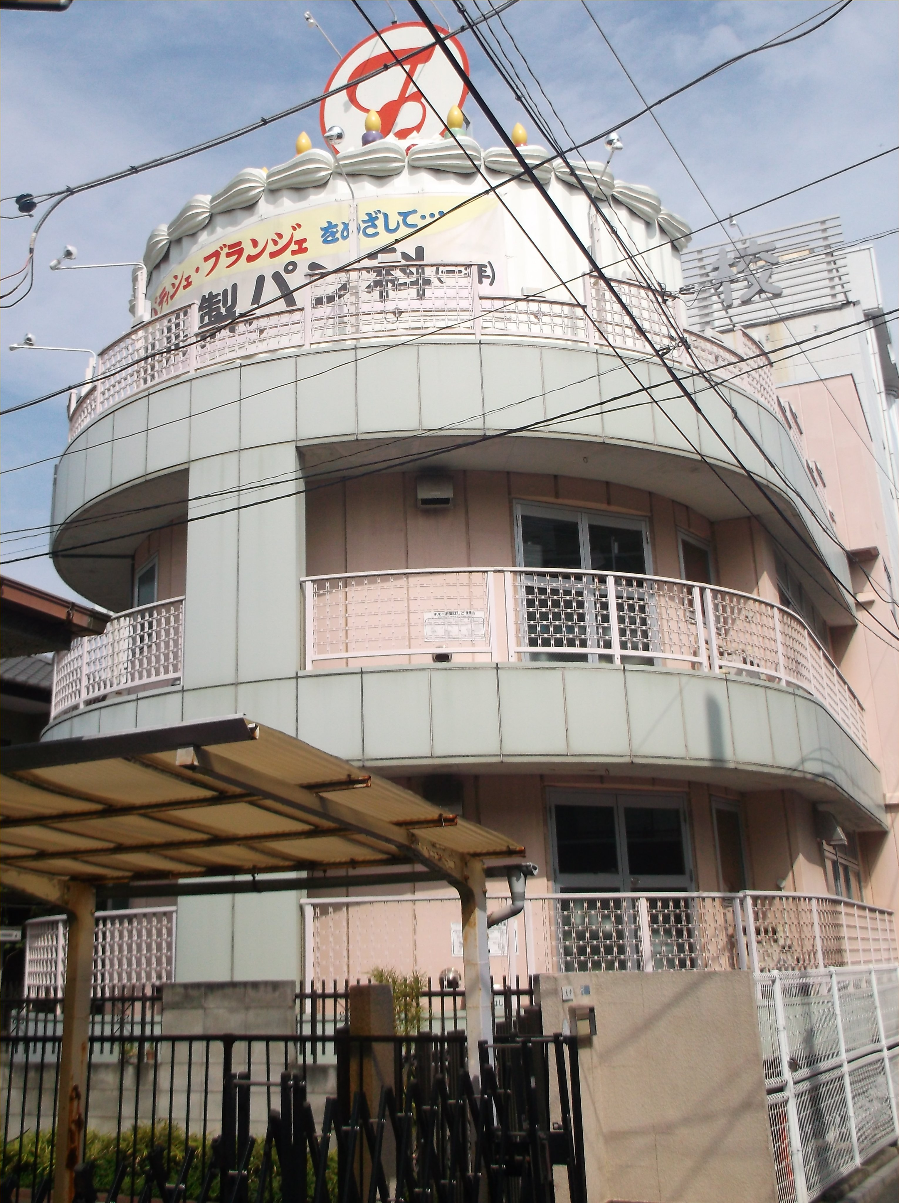 A photo of an overview of Futaba College of Confectionary ,Kichijojihoncho.Musashio city,Tokyo,Japan